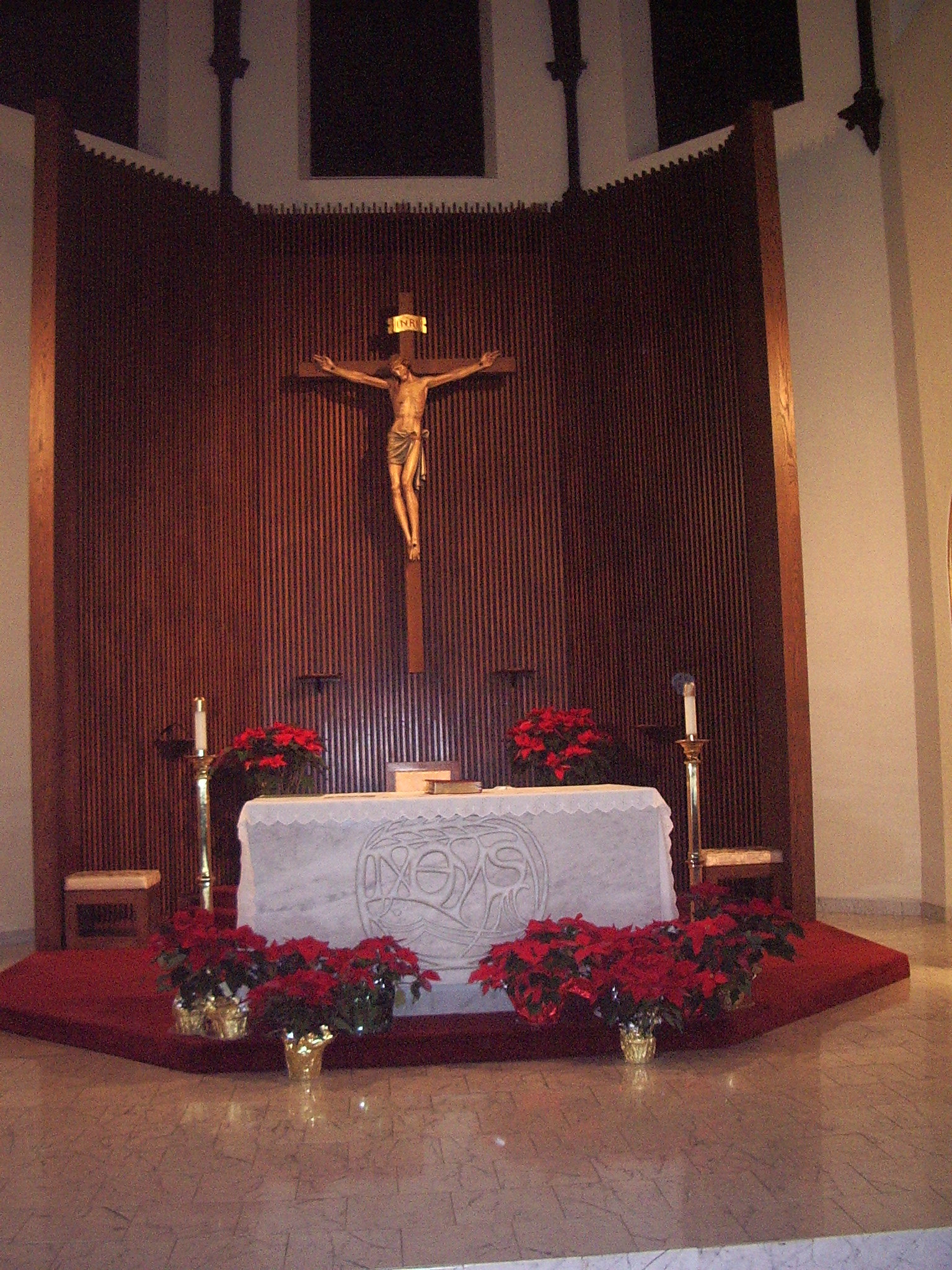 Most Holy Trinity altar.